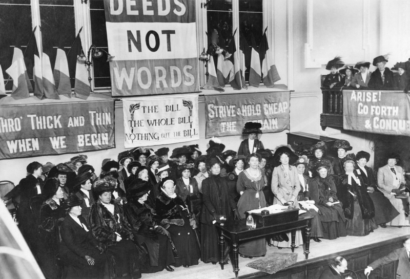 A suffragette meeting in Caxton Hall, Manchester, England circa 1908. Emmeline Pethick-Lawrence and Emmeline Pankhurst stand in the center of the platform.